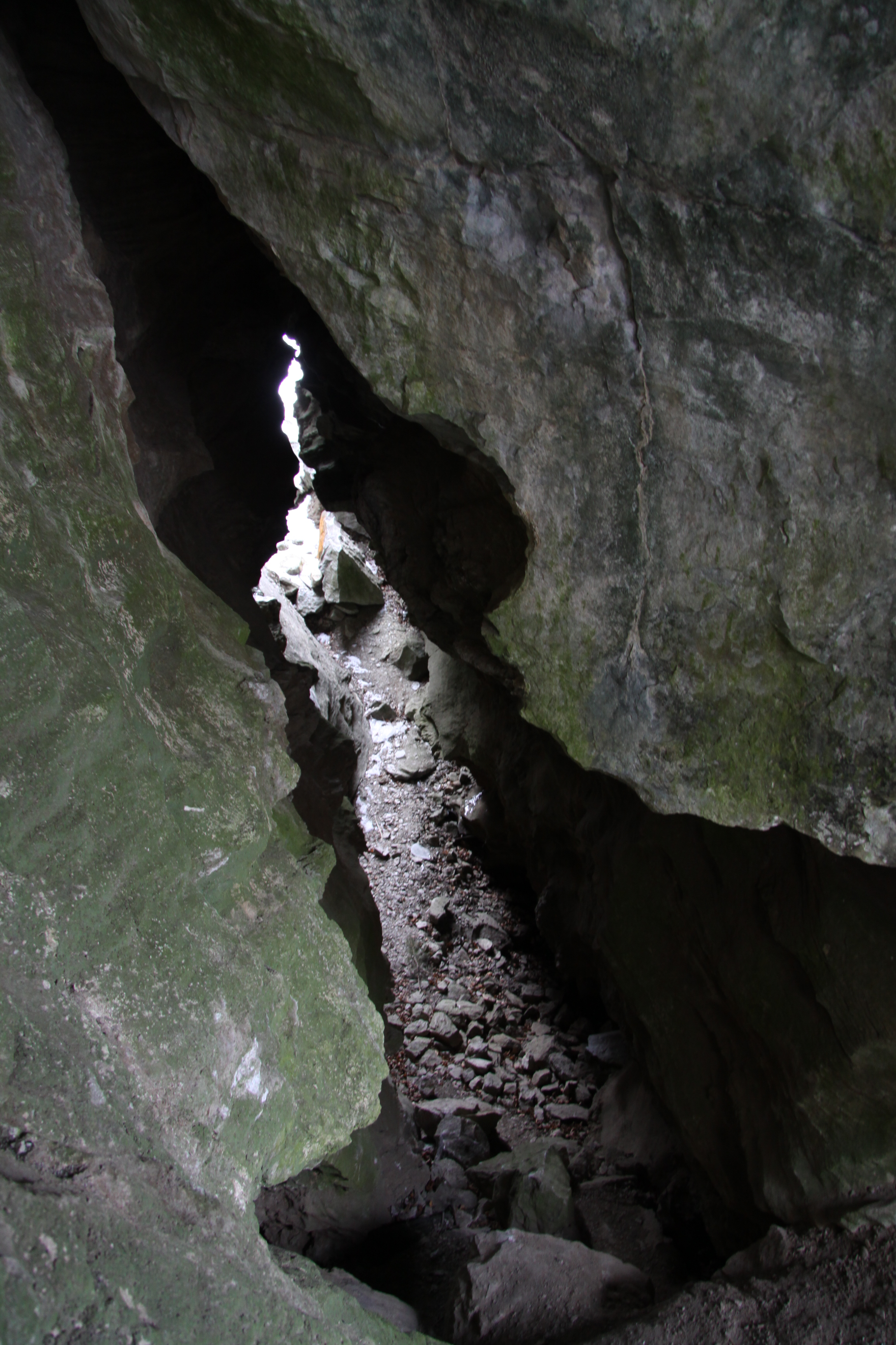 Sudslavická cave in natural reserve Opolenec in Prachatice District, Czech Republic